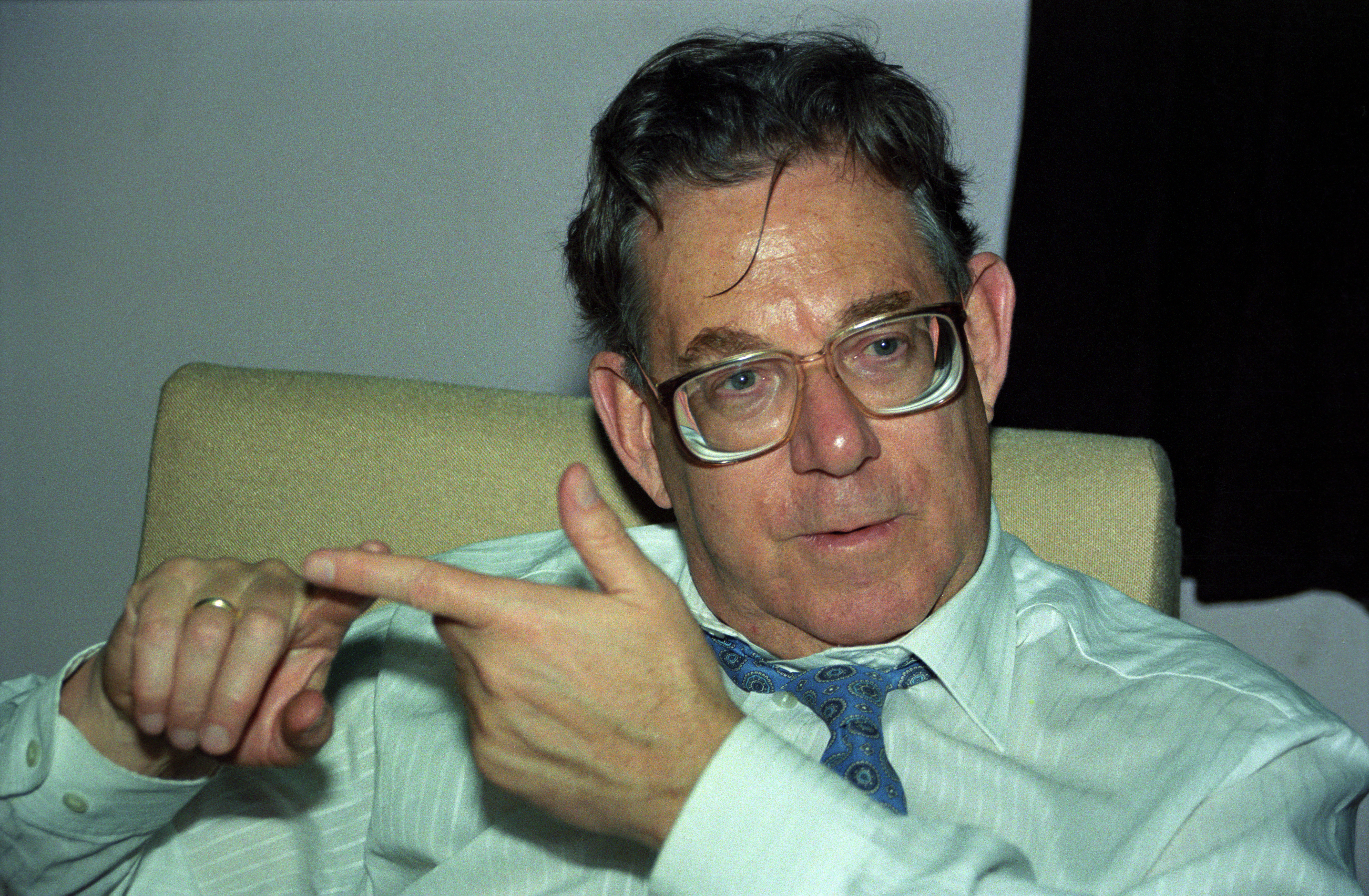 Dr Prof Paul Jozef Crutzen (born December 3, 1933, Amsterdam) is a Dutch Nobel prize winning in 1995, atmospheric chemist, inaugurated the Convention Complex of Science City Kolkata on 21st December, 1996 in presence of the then Chief Minister of West Bengal Jyoti Basu, the then Director General of NCSM Dr. Saroj Ghose. The photograph was taken by conventional negative film on Nikon camera, later that was scanned for digitization.